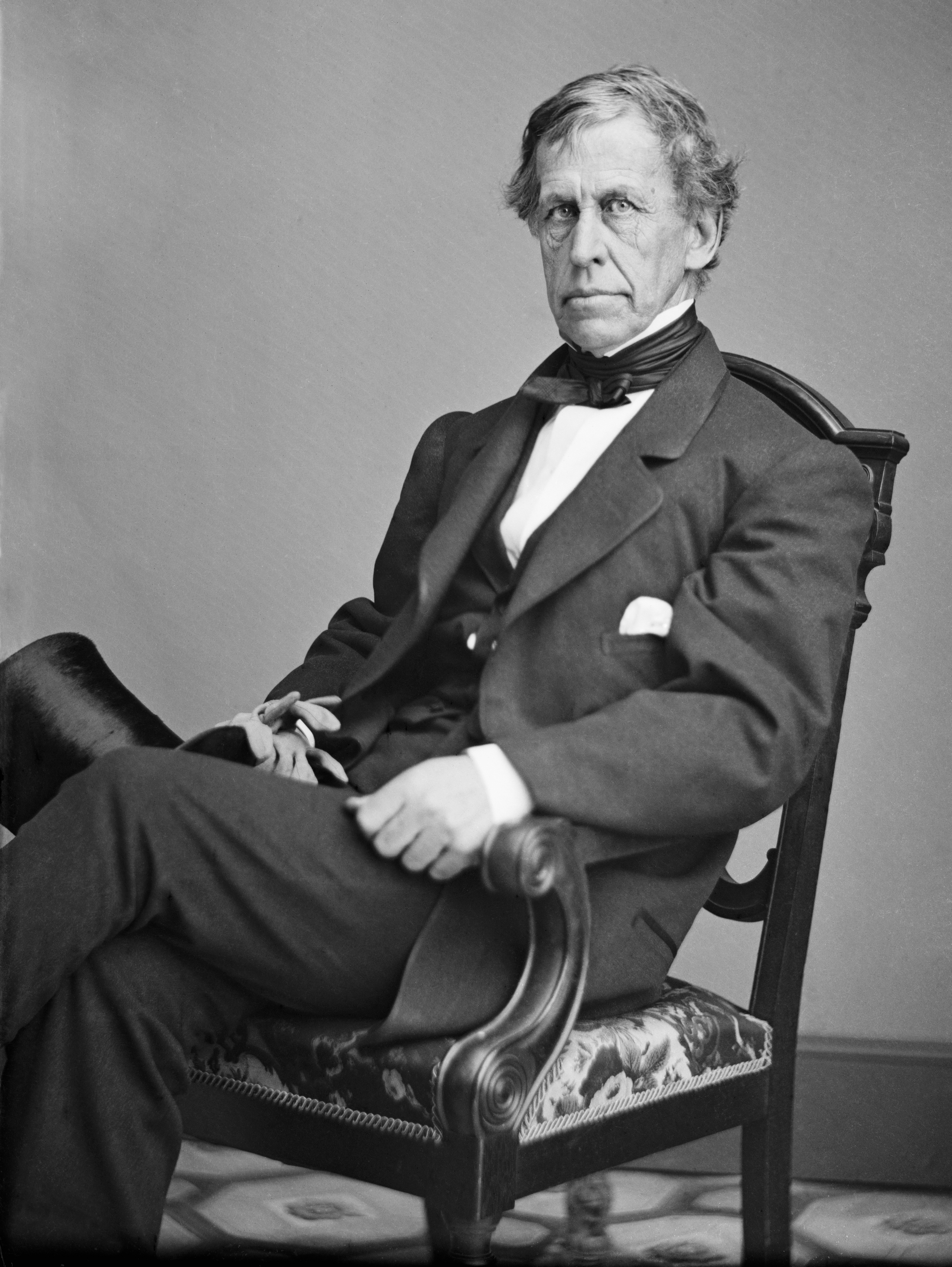 Charles Wilkes (1798–1877) was an American naval officer and explorer. He led the United States Exploring Expedition, 1838-1842 and commanded the American ship in the Trent Affair during the American Civil War. Several incidents caused him to be convicted of various offenses in two courts-martial. This photo is probably from 1866 since it is titled "Portrait of Rear Admiral Charles Wilkes, officer of the Federal Navy".